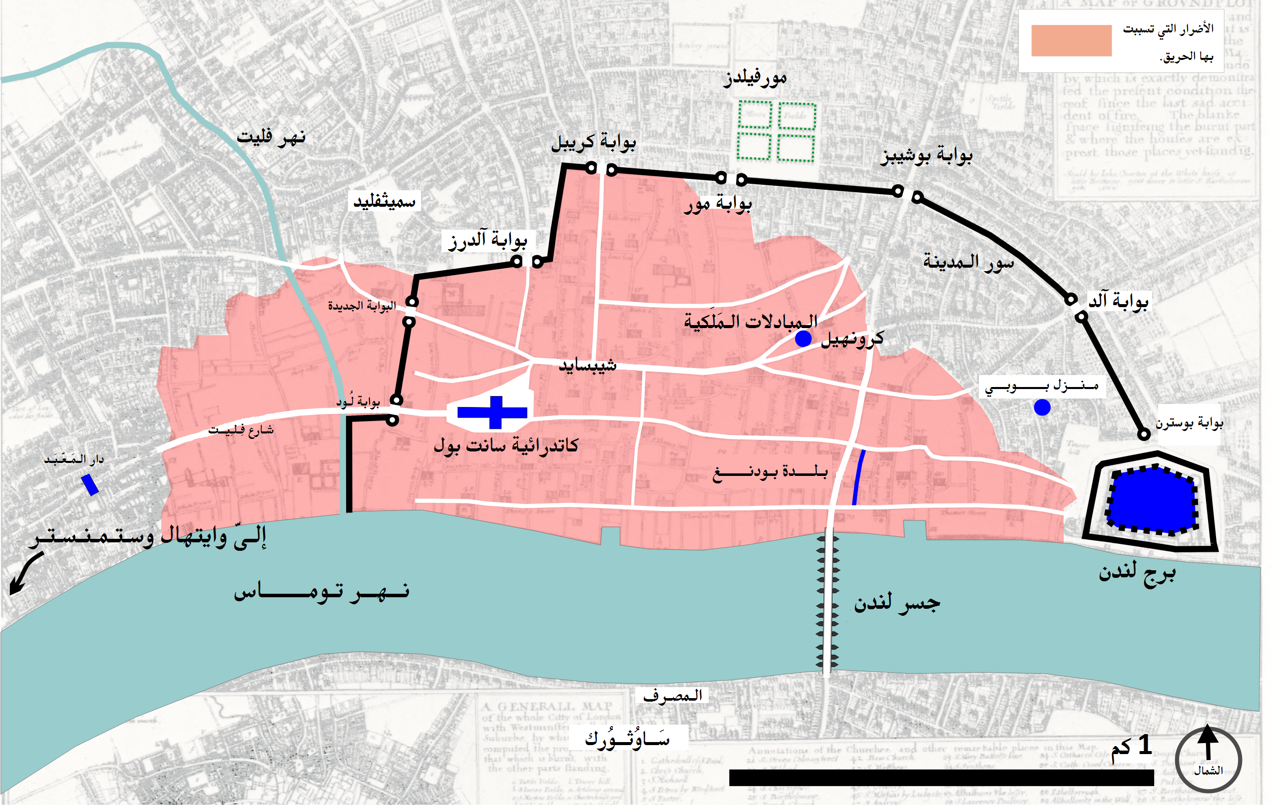 French map of central London in 1666, showing landmarks related to the Great Fire of London.